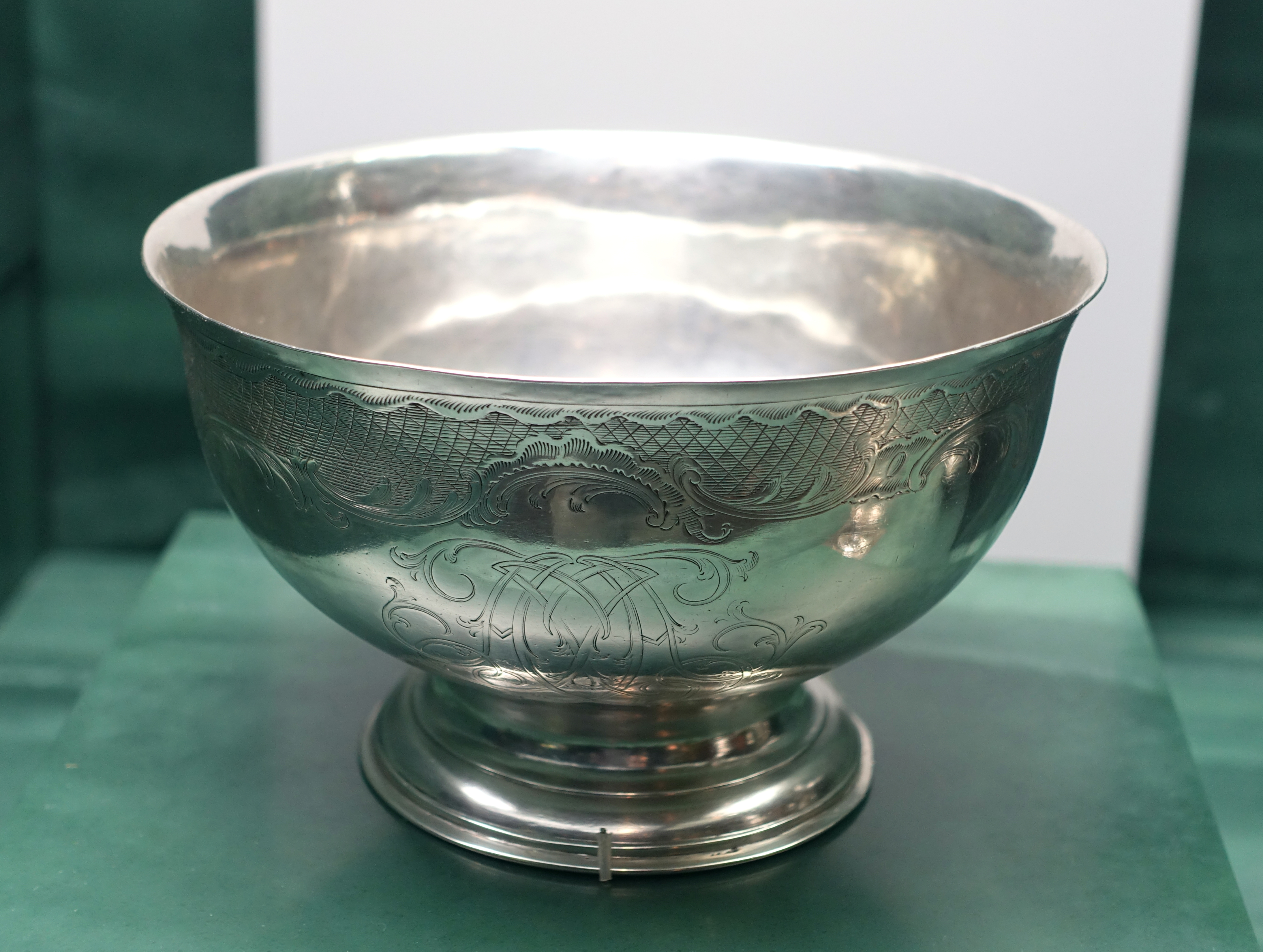 Exhibit in the Fowler Museum - University of California, Los Angeles - Los Angeles, California, USA.